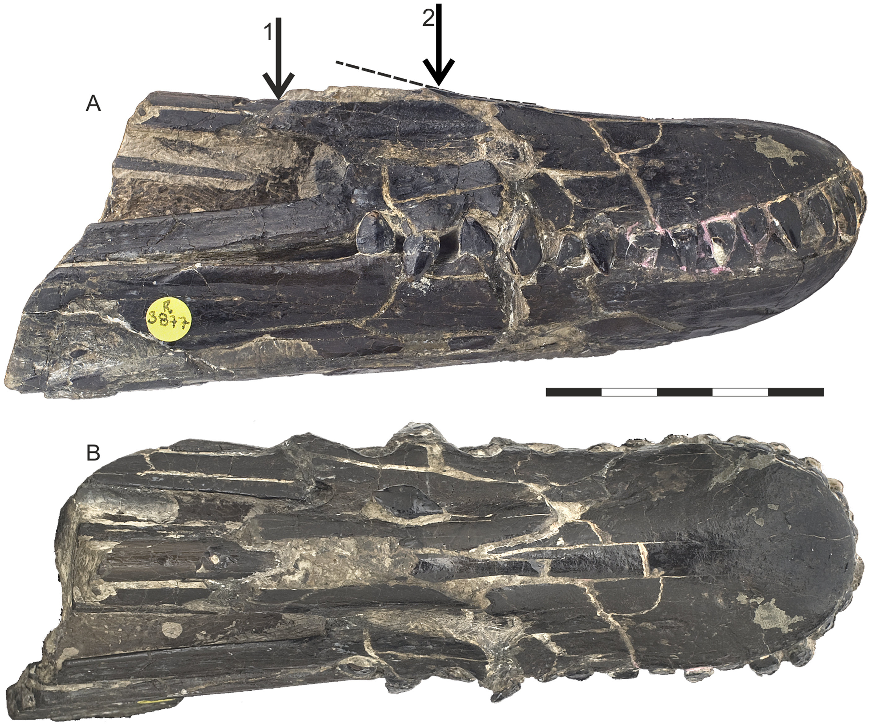 Evidence of crushing and displacement in the rostrum of Istiodactylus' specimen NHMUK R3877. (A) Right lateral view (B) dorsal. Arrow 1 denotes displacement of the posterior region of the premaxilla from the anterior rostrum; arrow 2 indicates dorsally upturned region of the dorsal facia; dotted line shows continuation of the dorsal margin denoted by arrow 2 beyond its posterior broken surface. Scale bar represents 50 mm.